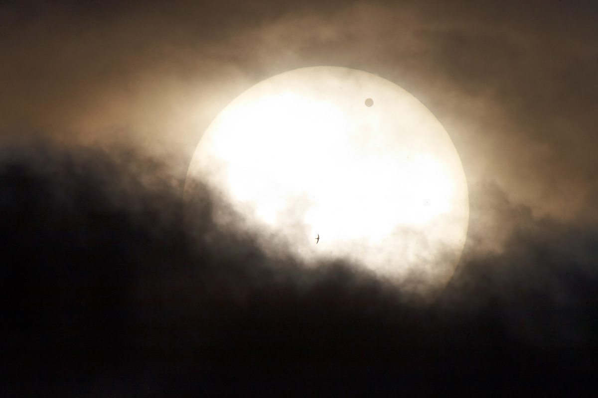 Venus transit 6 June 2012. Krylatsky hills, Moscow, Russia.